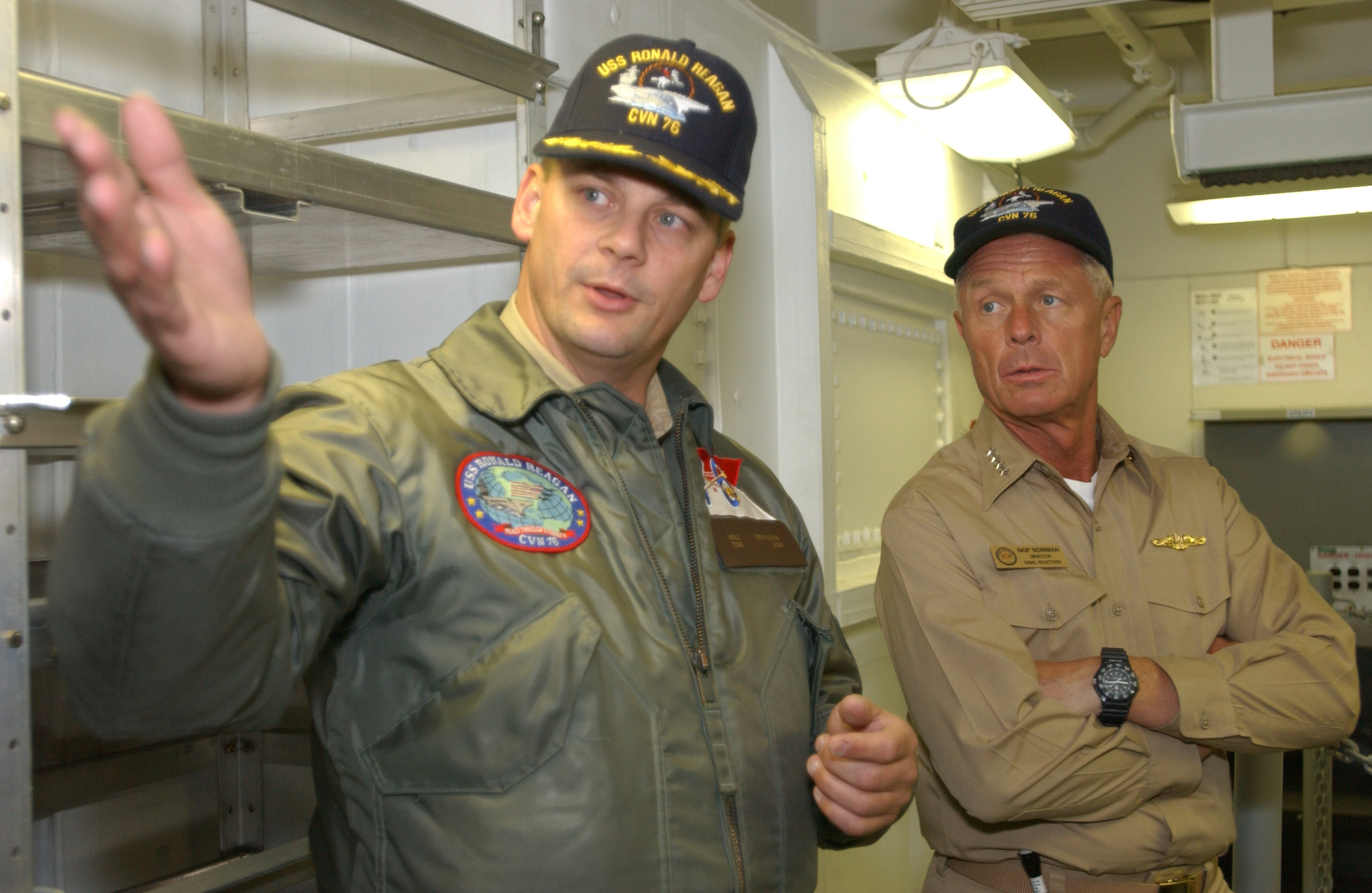 At sea aboard Precommissioning Unit (PCU) Ronald Reagan (CVN 76) May 5, 2003 -- Adm. Frank "Skip" Bowman (right) tours the Aircraft Intermediate Maintenance Department (AIMD) spaces aboard PCU Ronald Reagan with Cmdr. William Bransom, AIMD Officer during a visit to the ship for Builder’s Sea Trials. Bowman embarked aboard the Navy's newest aircraft carrier and witnessed landmark evolutions during its first underway period. U.S. Navy photo by Photographer’s Mate 2nd Class Chad McNeeley. (RELEASED)